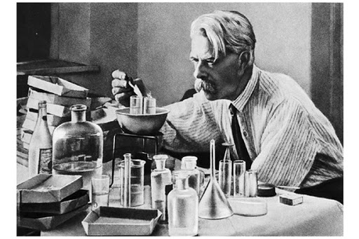 Nikolai Koltsov